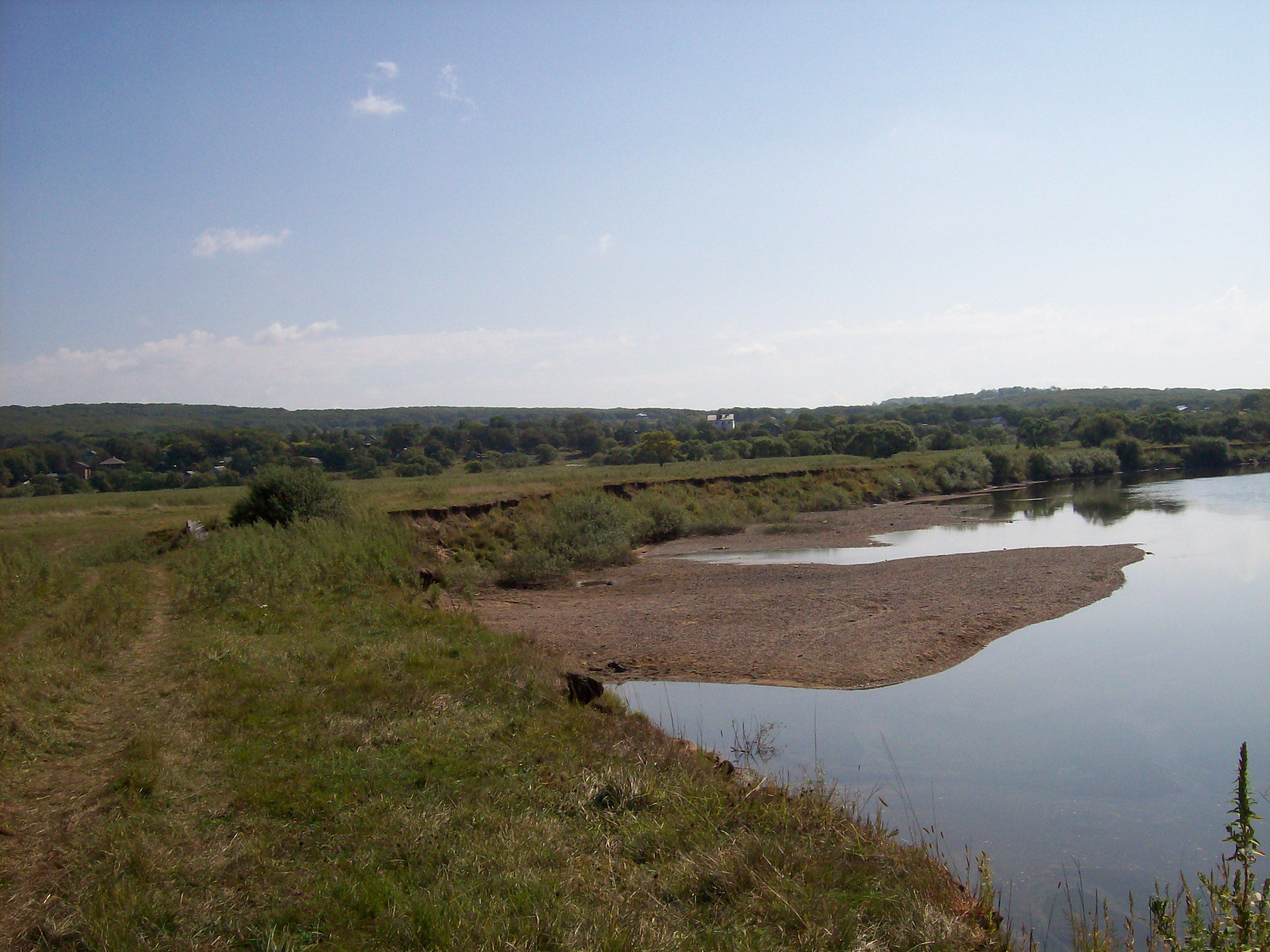 Rivers of Primorsky Krai